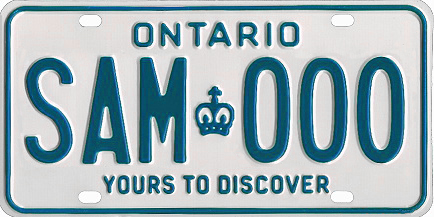 Ontario 1982 sample license plate